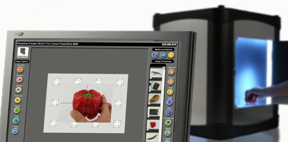 An example of digital camera studio